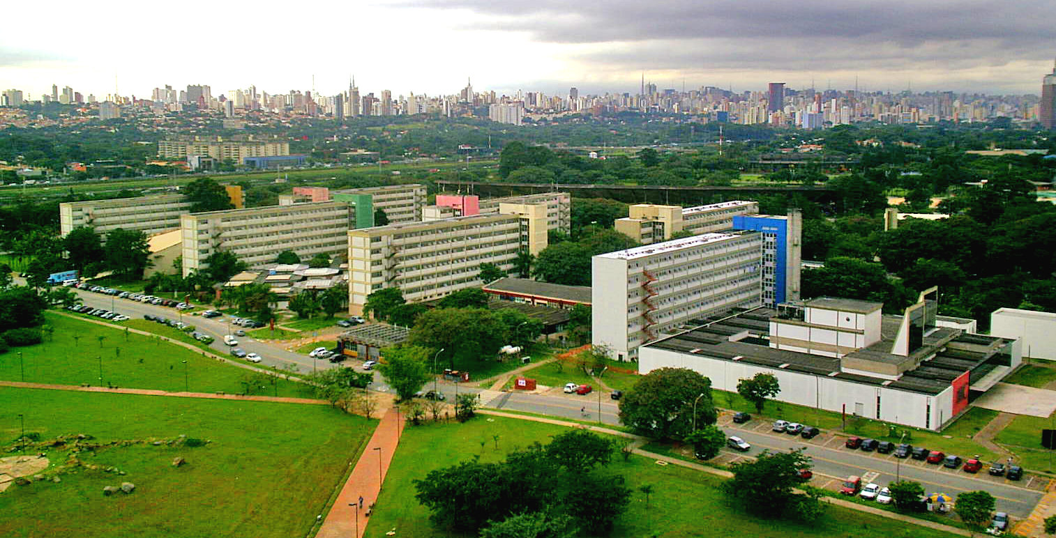 Students' dorms at University of Sao Paulo main campus, in São Paulo city, Brazil